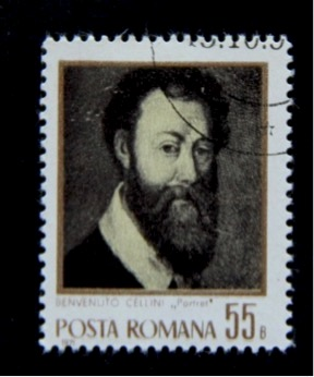 Benvenuto Cellini Stamp from Romania for 400 year death anniversary